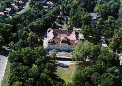 Hőgyész - Mercy-palace, Hungary, aerialphotography This is a photo of a monument in Hungary, Identifier: 8631